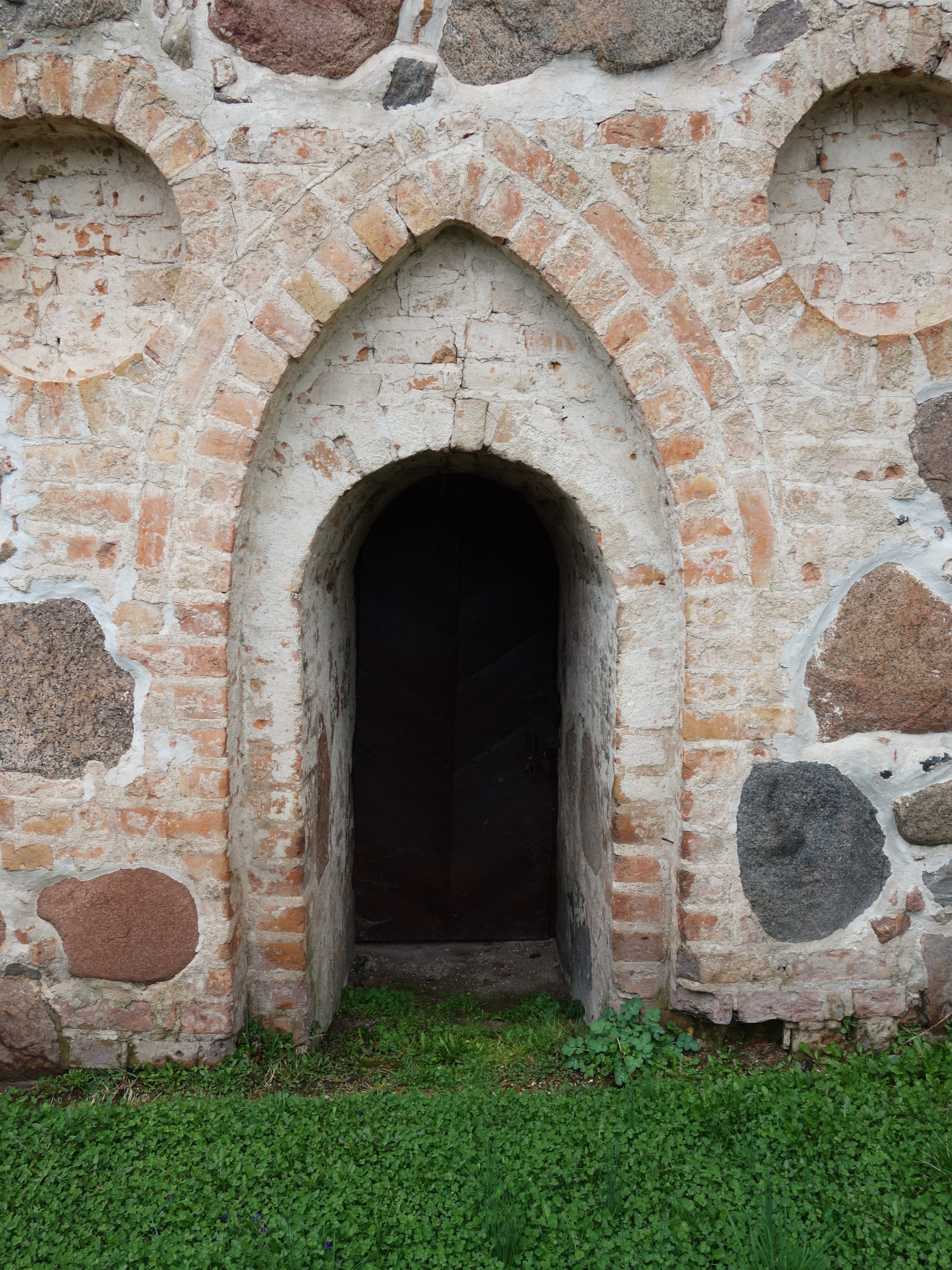 Northern portal of church in Nechlin, Uckerland municipality, Uckermark district, Brandenburg state, Germany